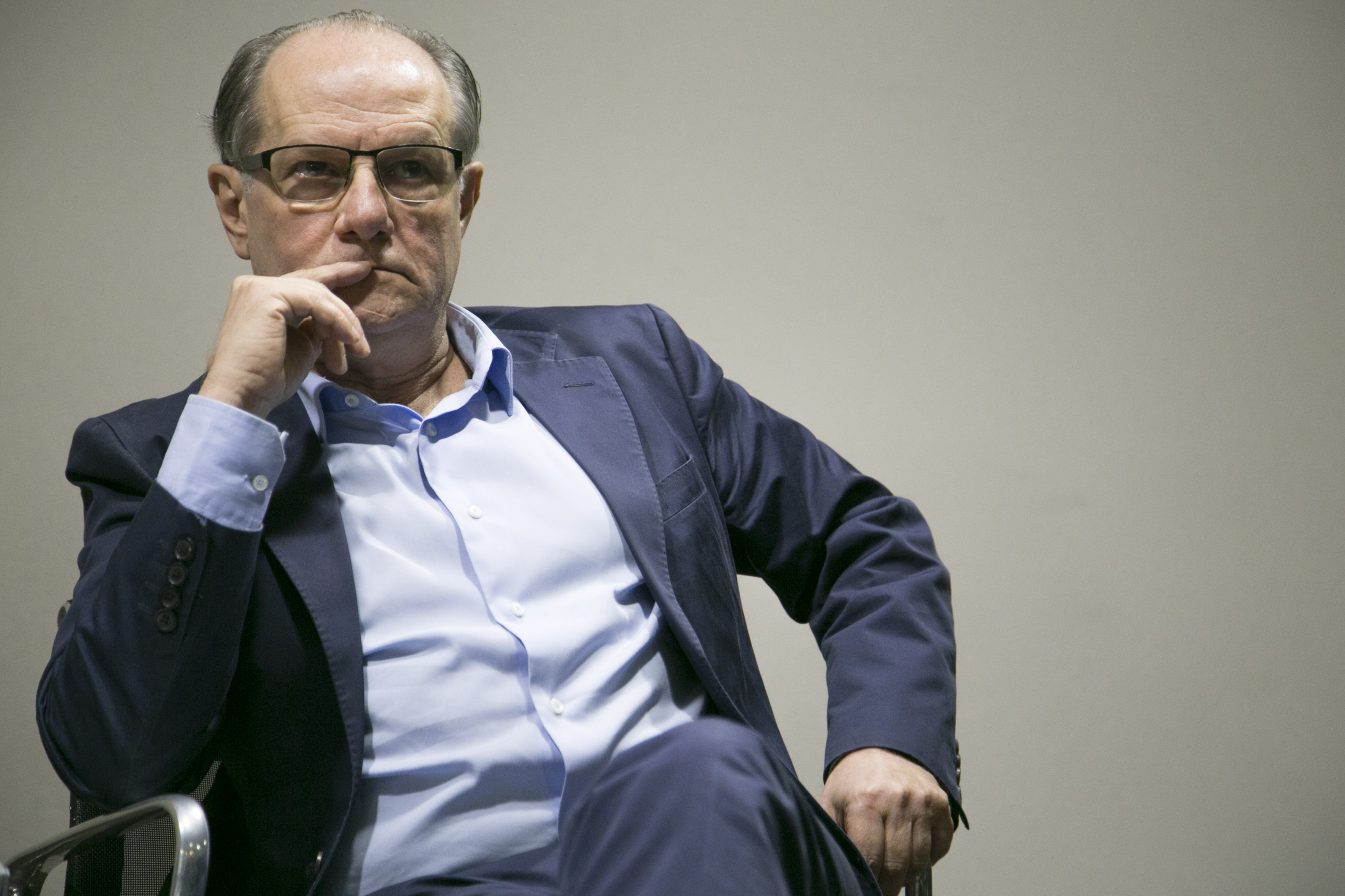 Mario Vitor Santos e Fernando Henrique Cardoso conversam sobre 200 anos do nascimento de Karl Marx, na Casa do Saber.